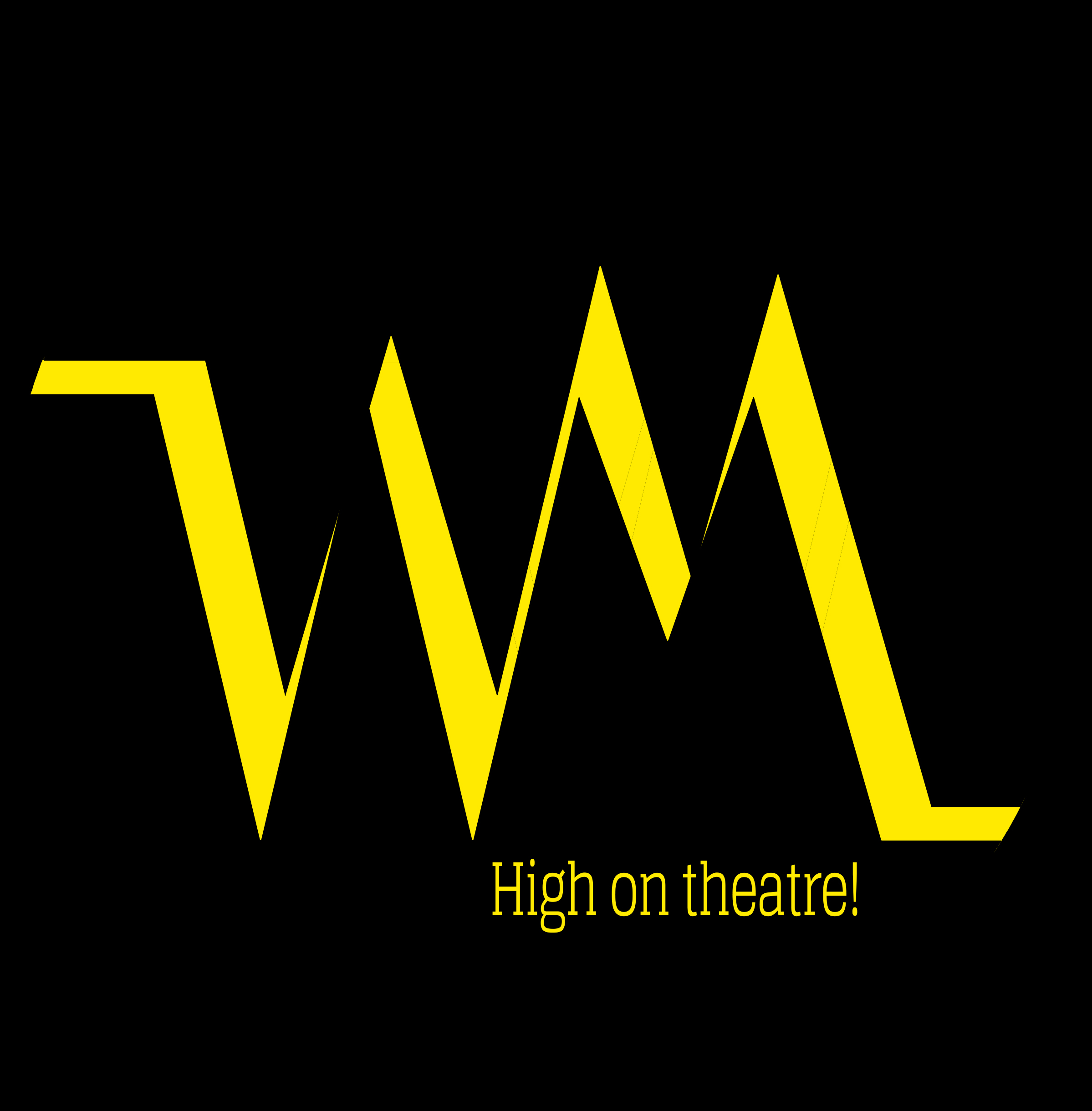 This is official logo of WeMove Theatre, a Bangalore based Theatre company